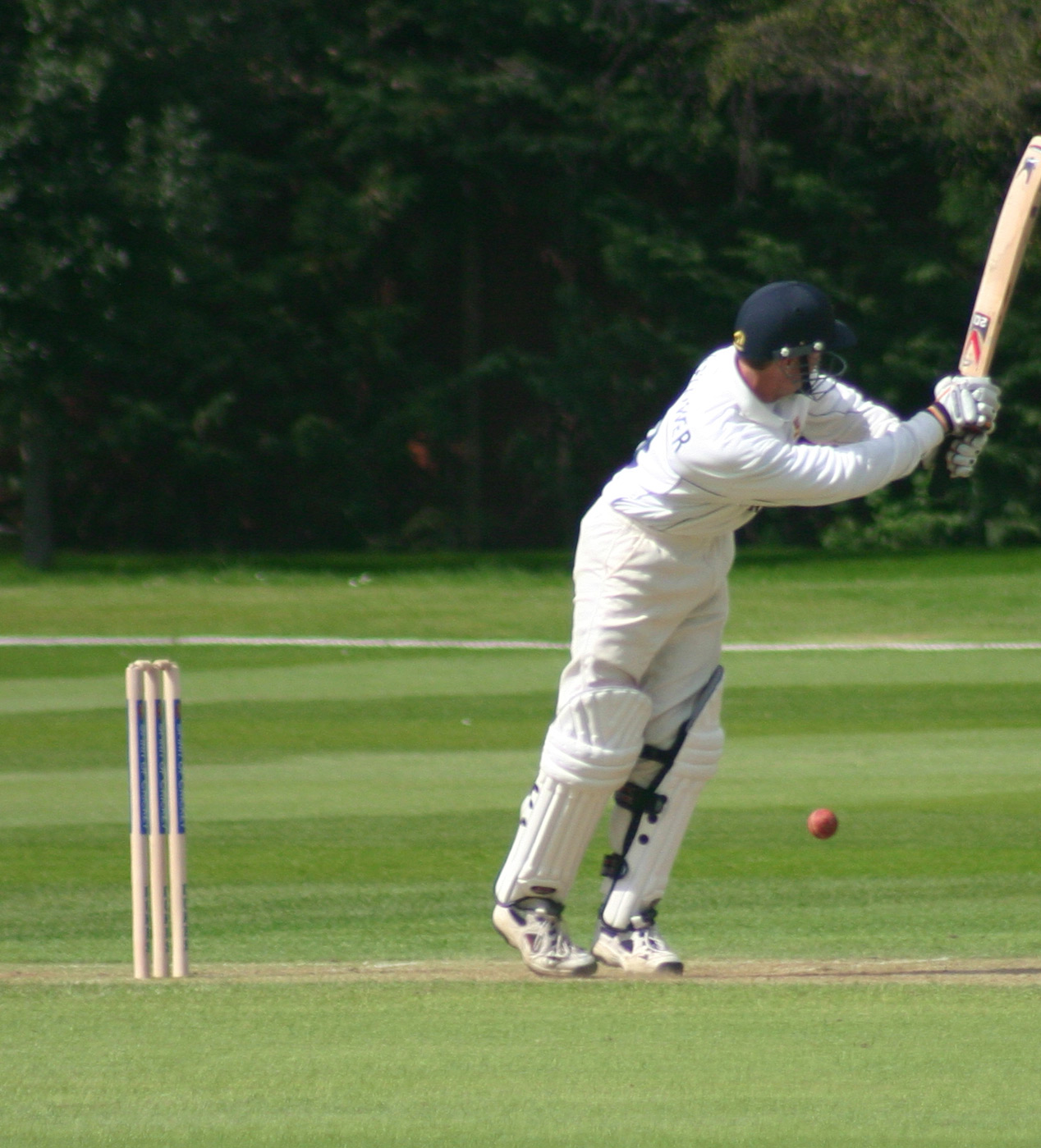 Grant Flower batting for Essex against Cambridge UCCE, at Fenner's cricket ground in Cambridge, 10 April, 2005. Photograph taken by Stephen Turner and released under the GFDL.